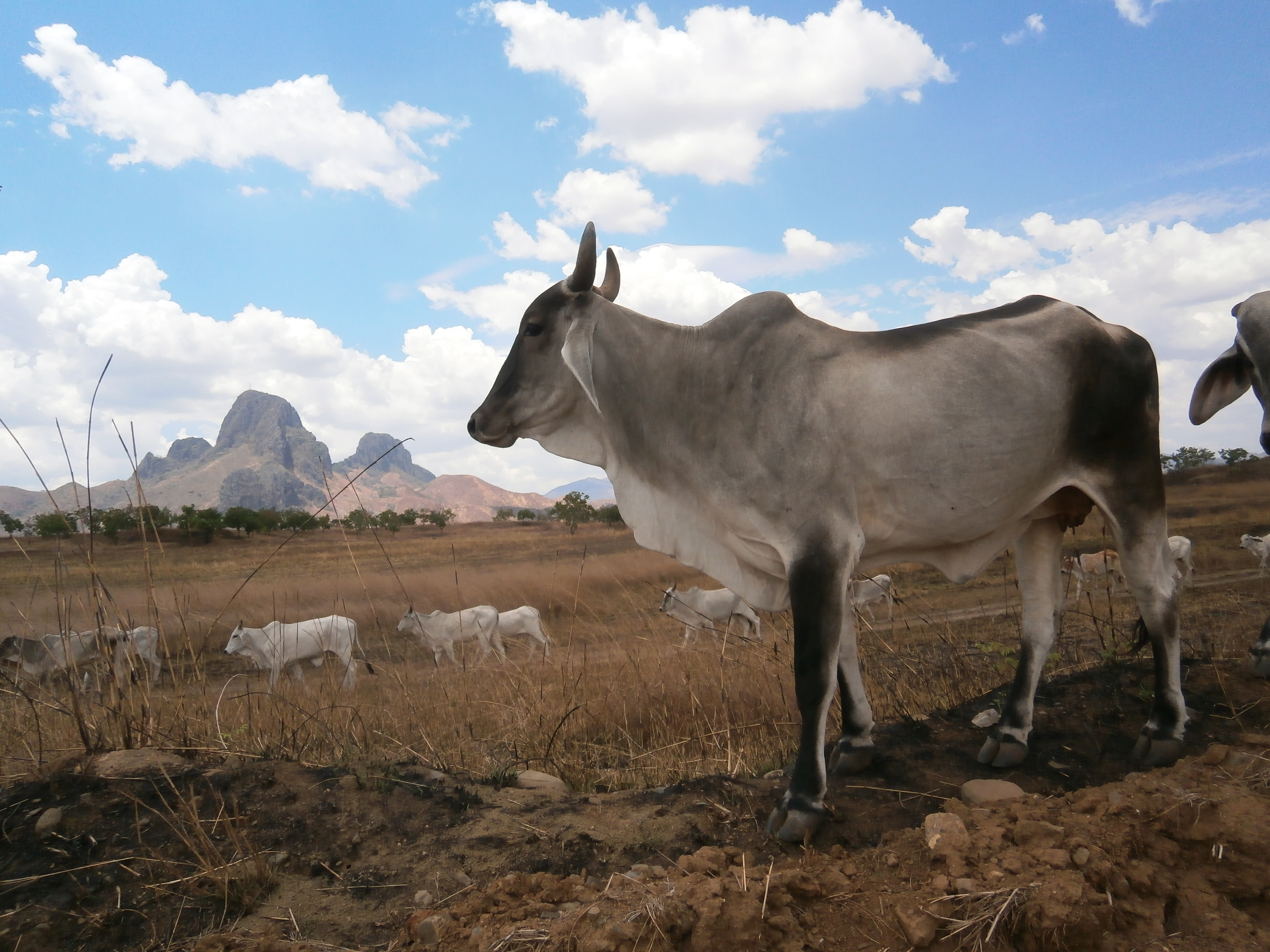 The cattle herding is established as one of the characteristic activities of the Venezuelan plains. In this case, besides the close-up of the cow, can be seen in the background the Natural Monument "Aristides Rojas," better known as "Los Morros de San Juan" in contrast with the blue sky and the wide plain.